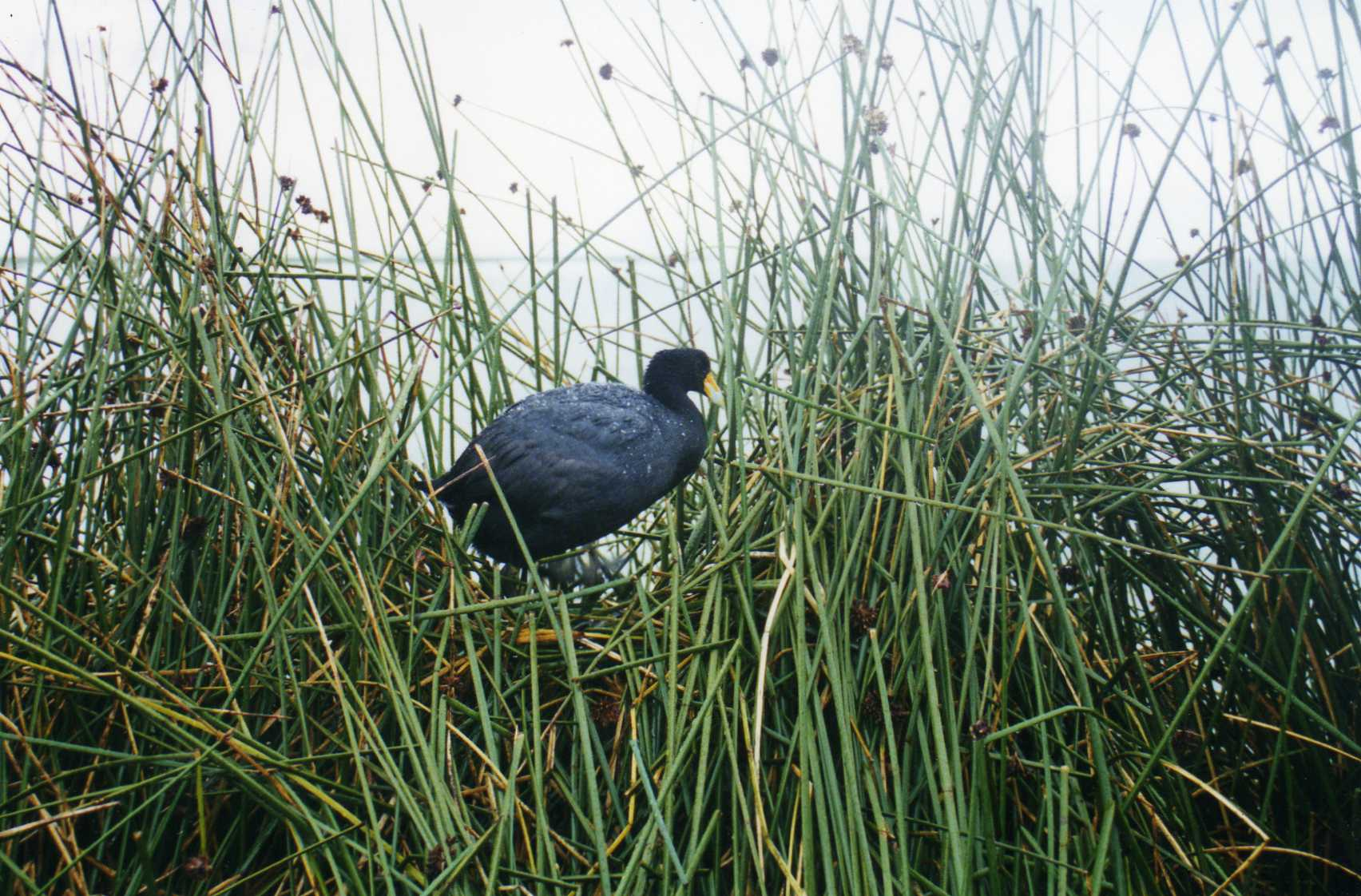 Andean coot (Fulica ardesiaca) amongst the totora reeds. "Totora (Schoenoplectus californicus ssp. tatora) is a subspecies of the giant bulrush sedge. It is found in South America - notably on Lake Titicaca -, the middle coast of Perú and on Easter Island in the Pacific Ocean."